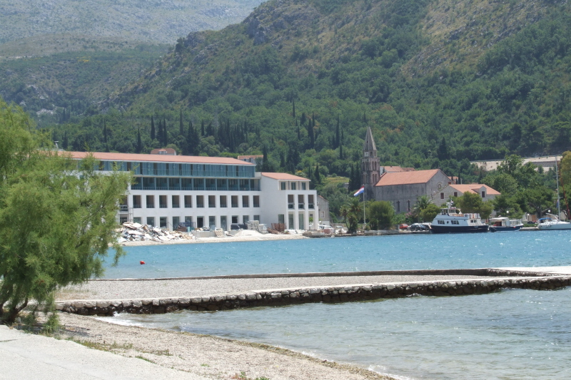 New building of Hotel Admiral in Slano, Croatia.